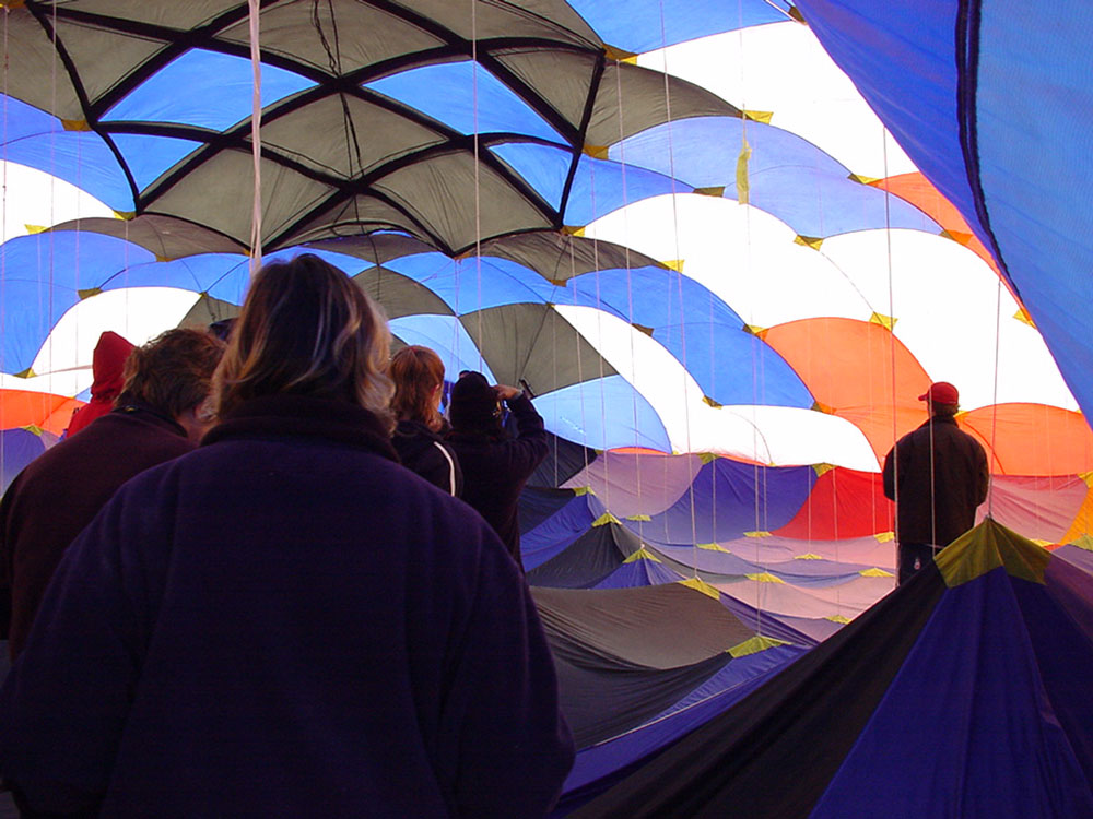 Peter Lynn, 2000